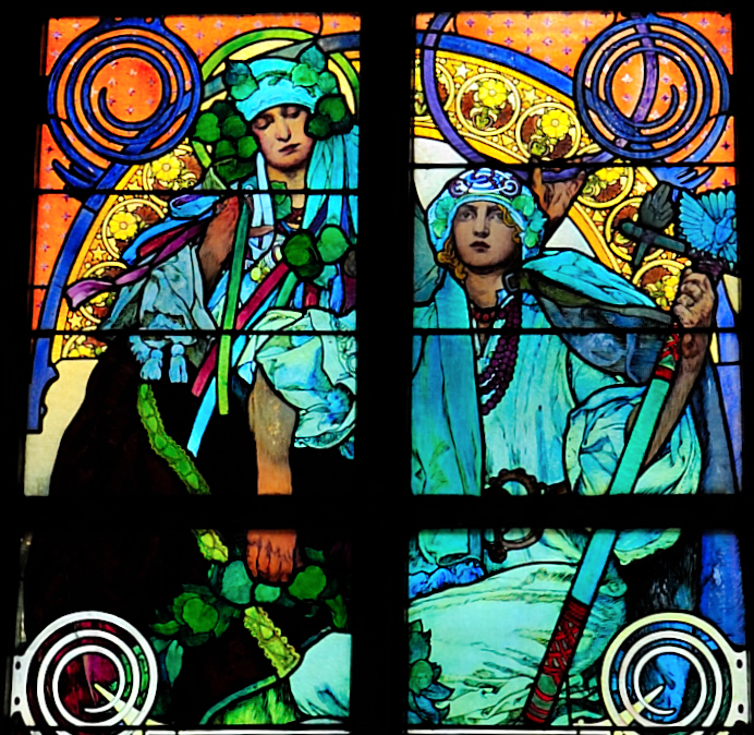 Detail of Mucha stained glass in St. Guy Cathedral in Prague